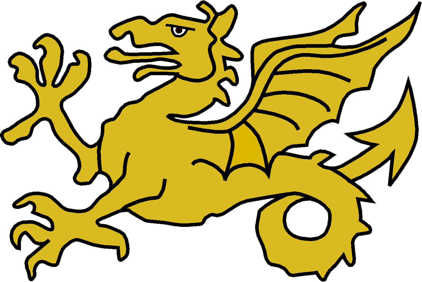 The Golden Wyvern, associated with the House of Wessex.